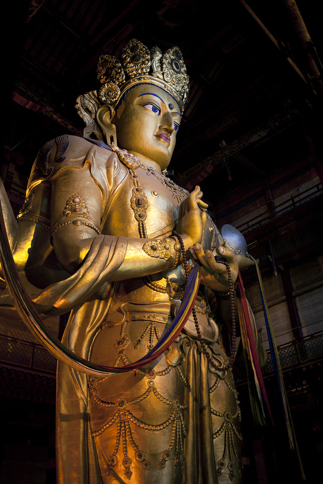 Mongolia's largest statue of Buddha, the Migjid Janraisig Sum, stands 26 meters high in Ulaanbaatar's Gandan Monastery. It is considered a triumph of spiritual art. Ulaanbaatar, Mongolia.